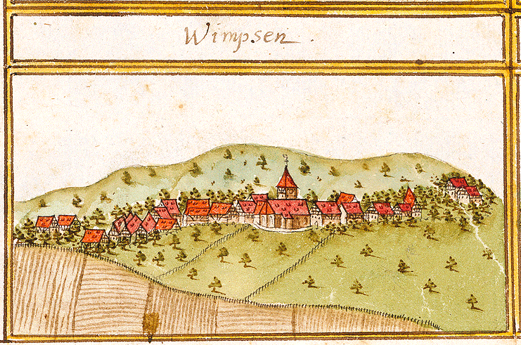 View of Wimsheim from the forest register books created by Andreas Kieser